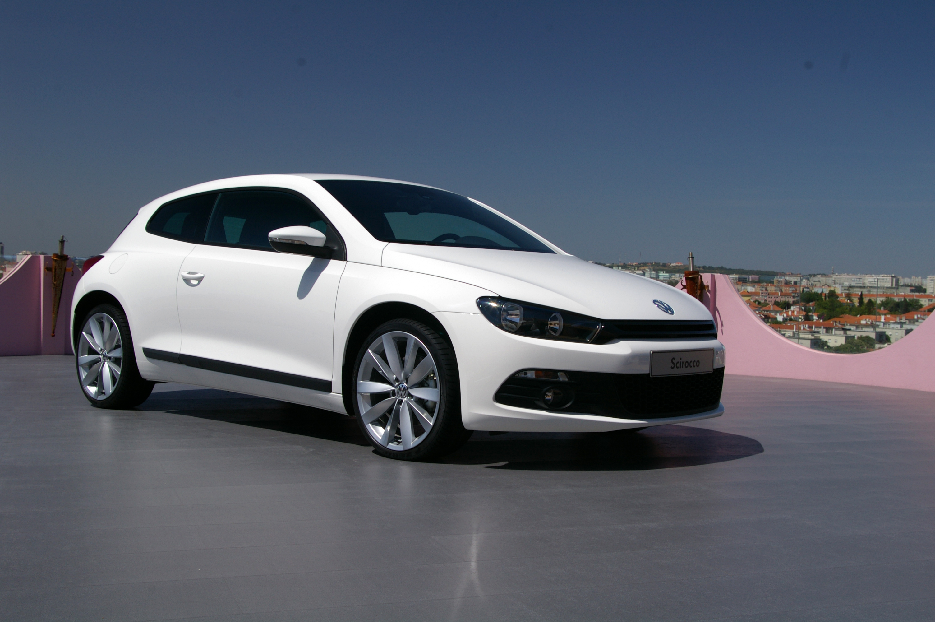 2008 Volkswagen Scirocco launch, Lisbon, Portugal